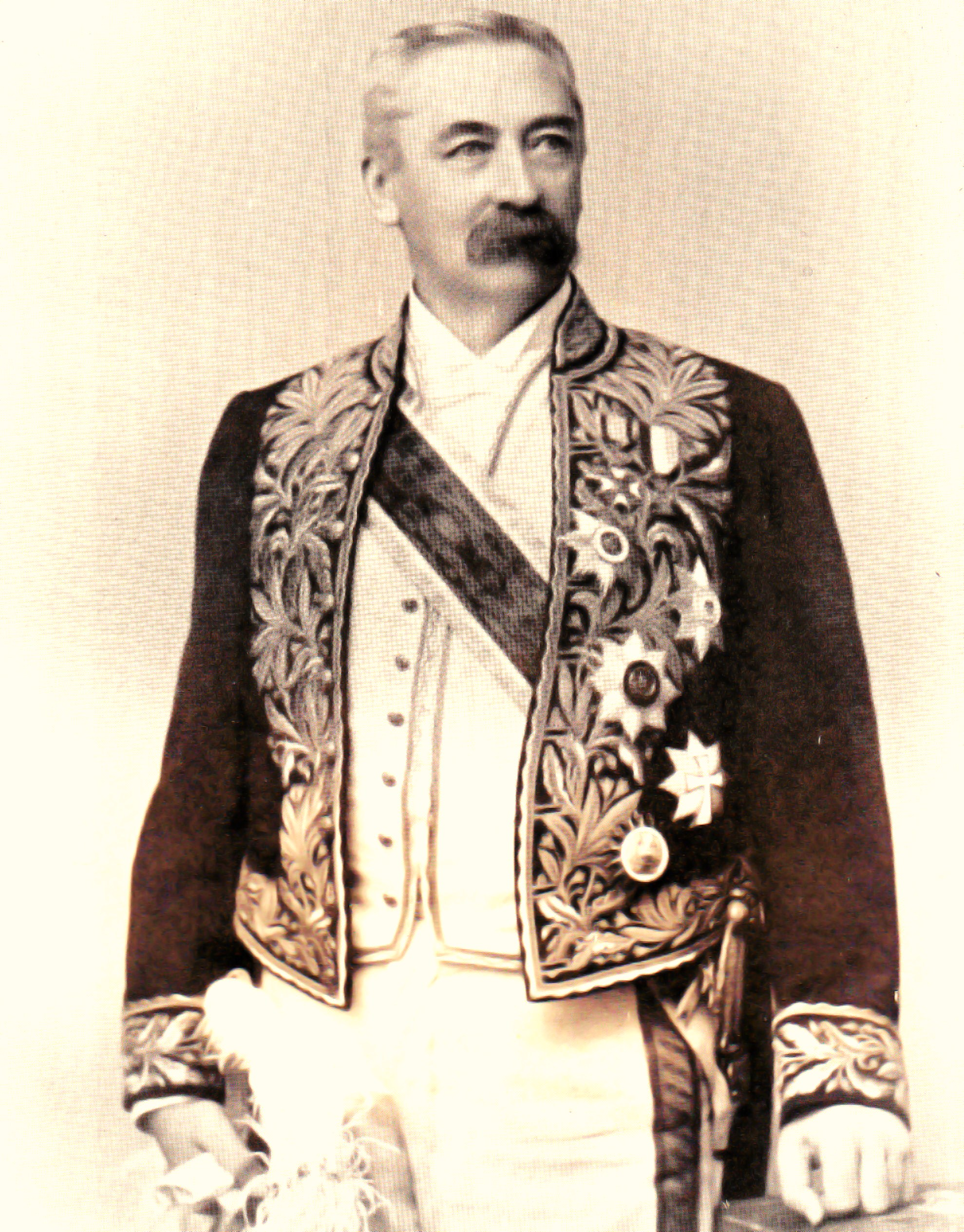 W. Rooseboom